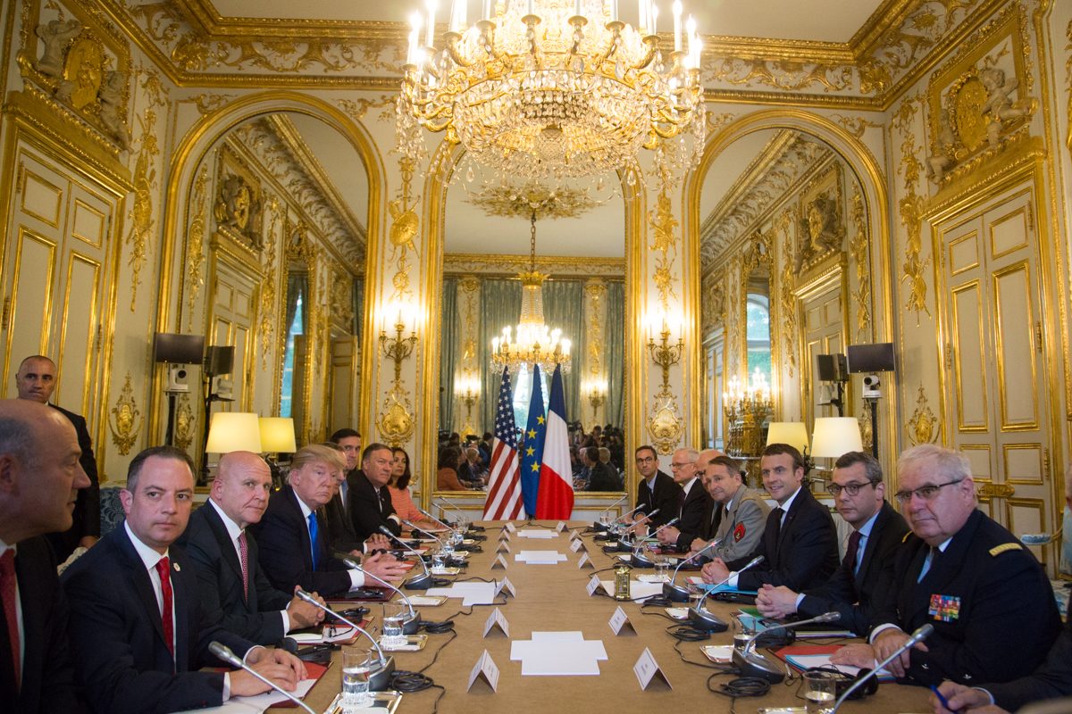 President Donald J. Trump and President Emmanuel Macron / July 13, 2017 (Official White House Photo by Shealah Craighead)